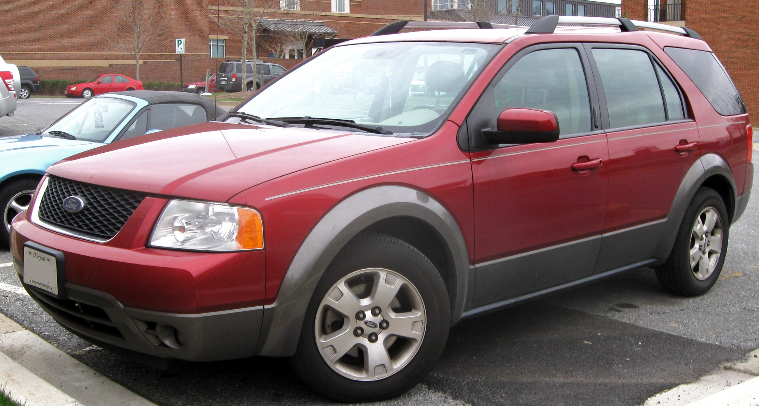 2005-2007 Ford Freestyle photographed in College Park, Maryland, USA.